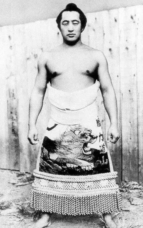 Rikidōzan (1924–63) as Selowale.